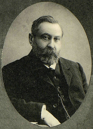 Prince Nikolai Sergeevich Volkonski, activist of Zemstvo, an organizer of "Union of 17th October", a member of the First and the Third Russian State Dumas